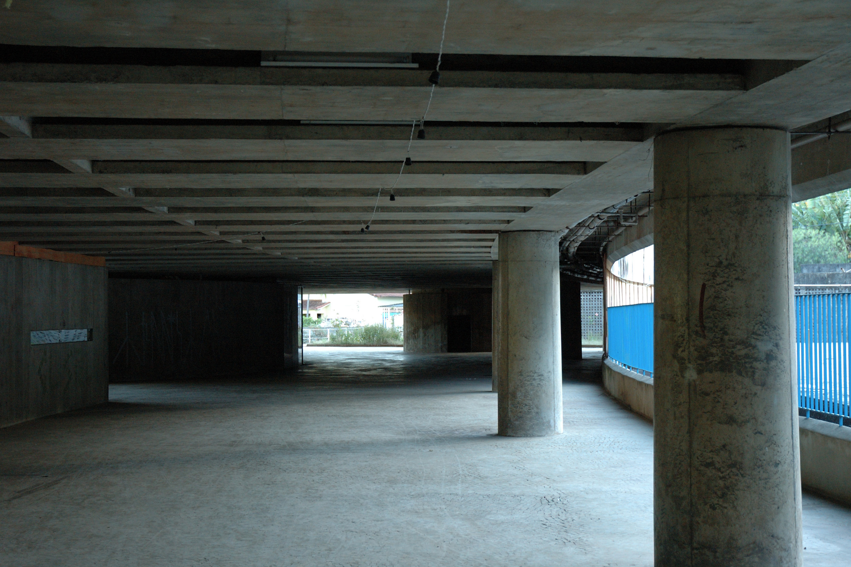 Interior of balneary Teotonio Vilela